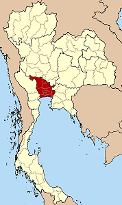 Map of Thailand highlighting the extent of the Roman Catholic archdiocese of Bangkok.